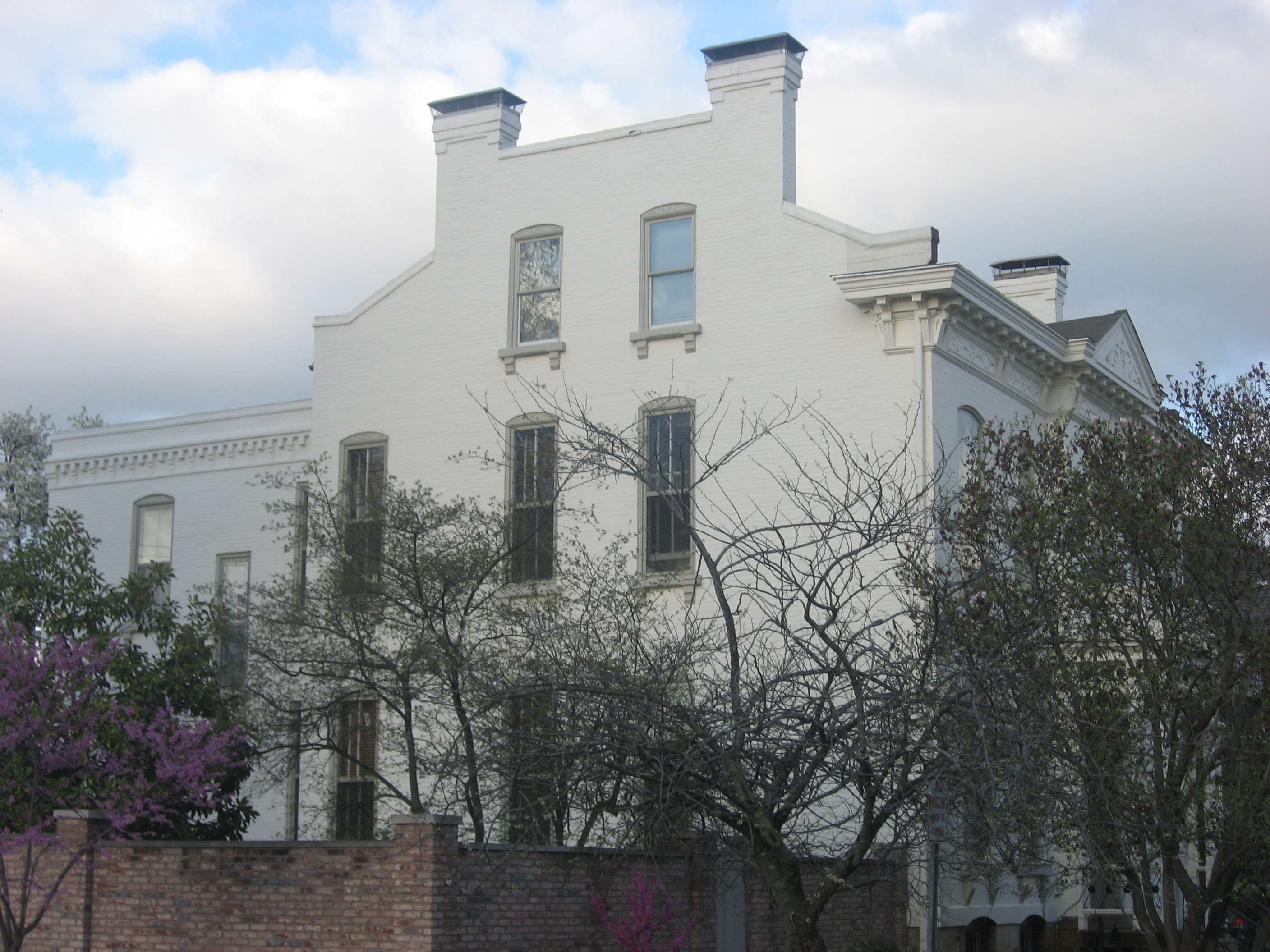 Western side and front of the Frederick W. and Mary Karau Pott House, located at 826 Themis Street in Cape Girardeau, Missouri, United States. Built in 1885, it is listed on the National Register of Historic Places.